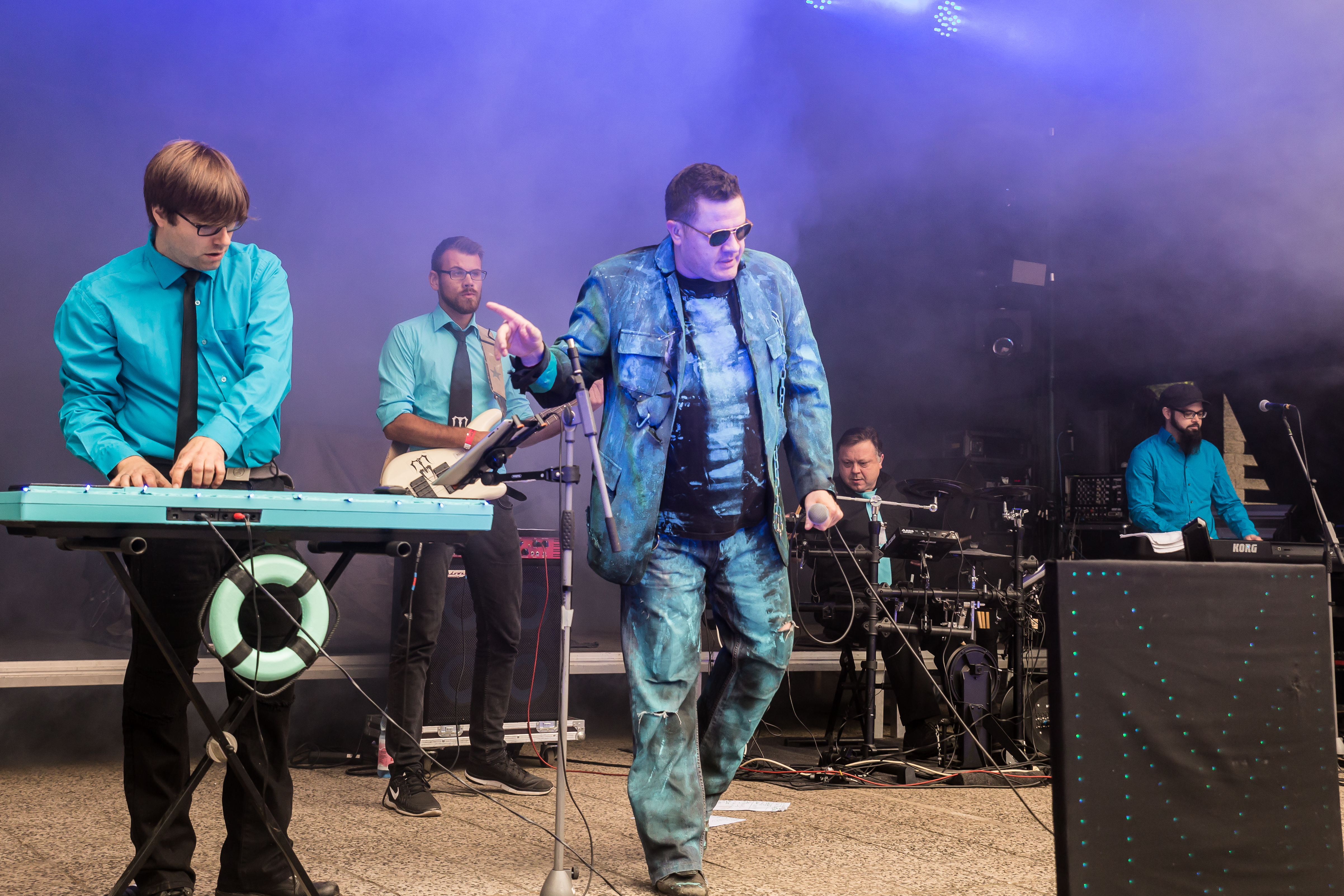 The German future pop project Massiv In Mensch at the Nocturnal Culture Night 12 2017 in Deutzen/Germany.